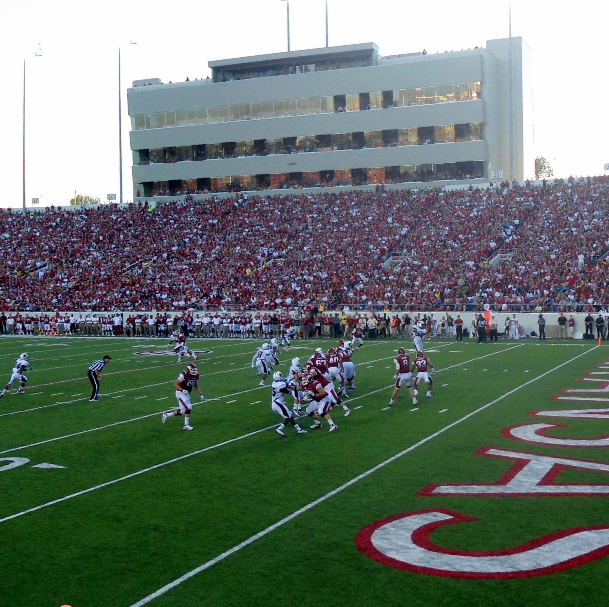 ULM Warhawks play against the Arkansas Razorbacks in War Memorial Stadium, Little Rock, AR